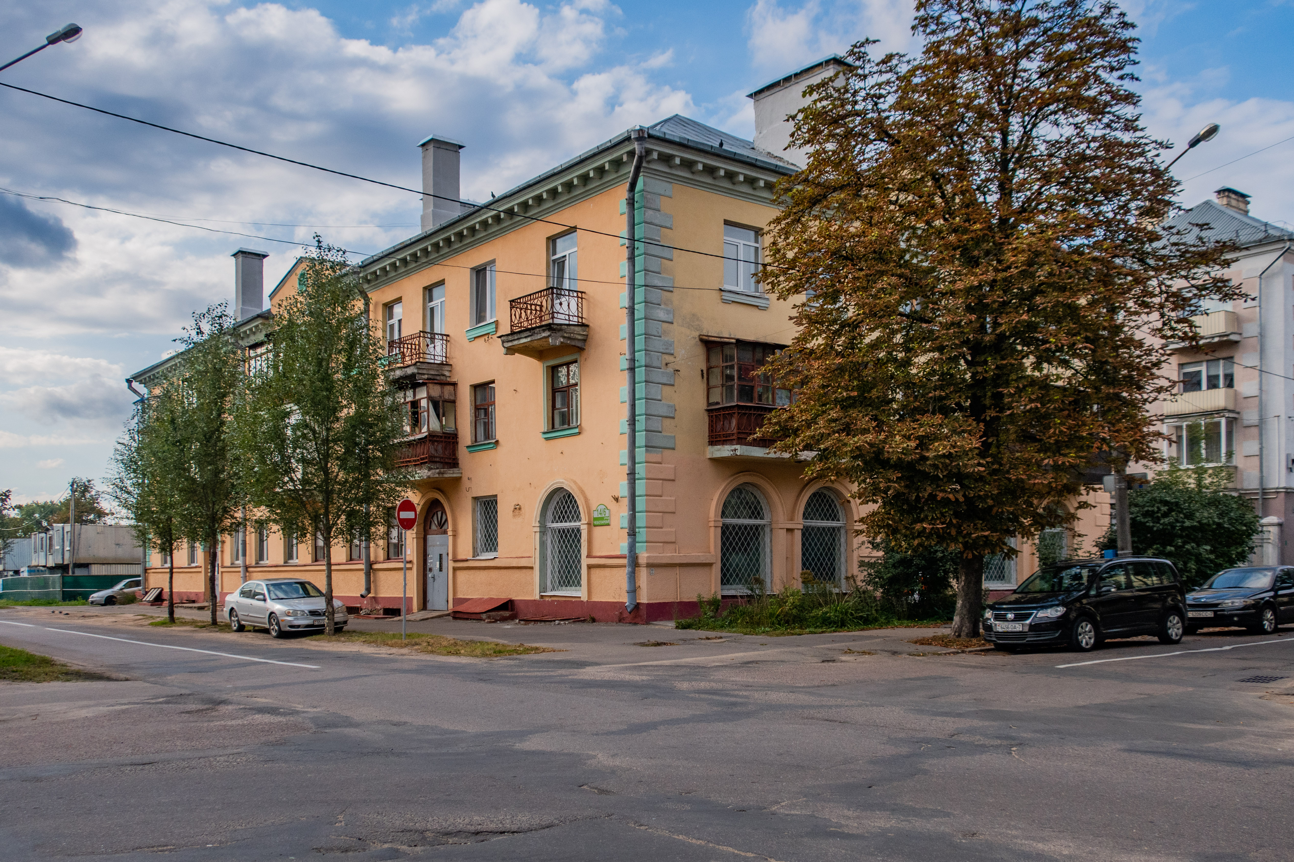 Čabatarova street. Minsk, Belarus